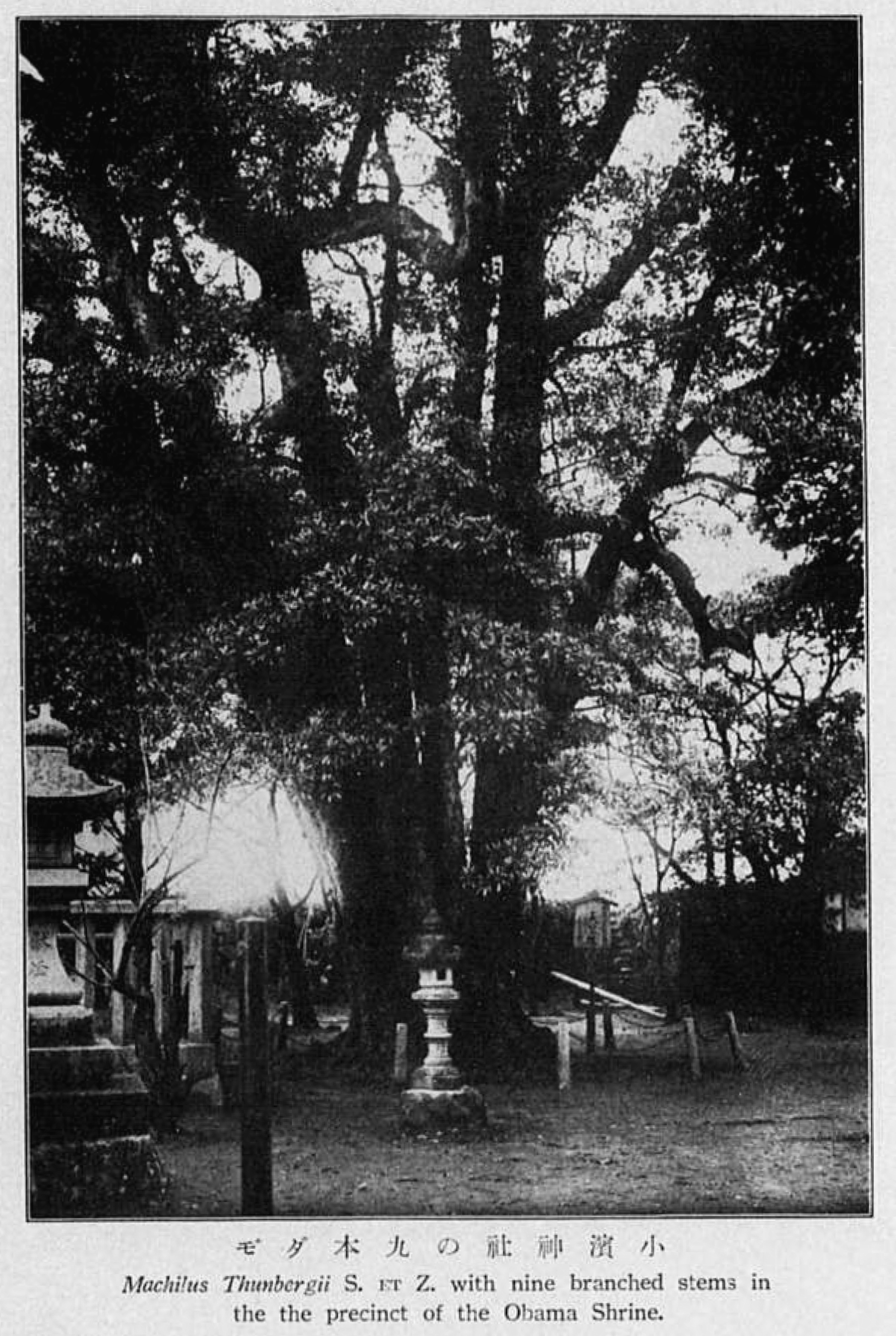 Machilus Thmbergii with nine branched stems in the precinct of the Obama Shrine, Obama, Fukui prefecture, Japan.